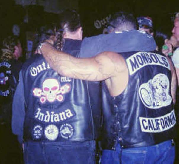 Outlaw motorcycle jacket, showing 'colors', Mongols motorcycle jacket, showing colors. Four Hells Angels members display their jackets' 'colors'.